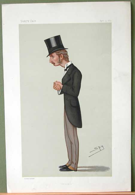 Statesmen No.298: Caricature of The Rt Hon Lord GF Hamilton MP. Caption reads: "Georgie"